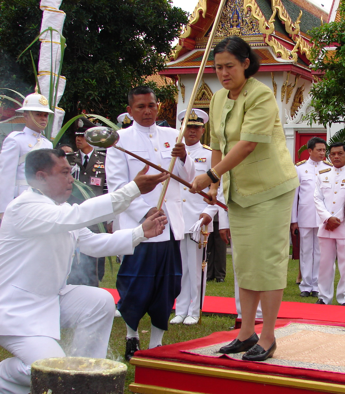 HRH Princess Maha Chakri Sirindhorn